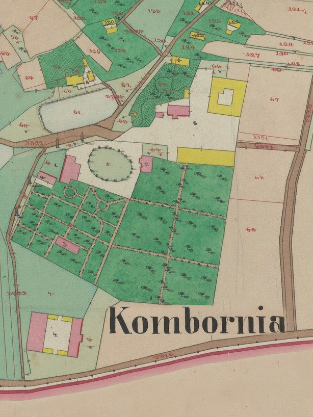 Manor house in Kombornia on a map from 1851